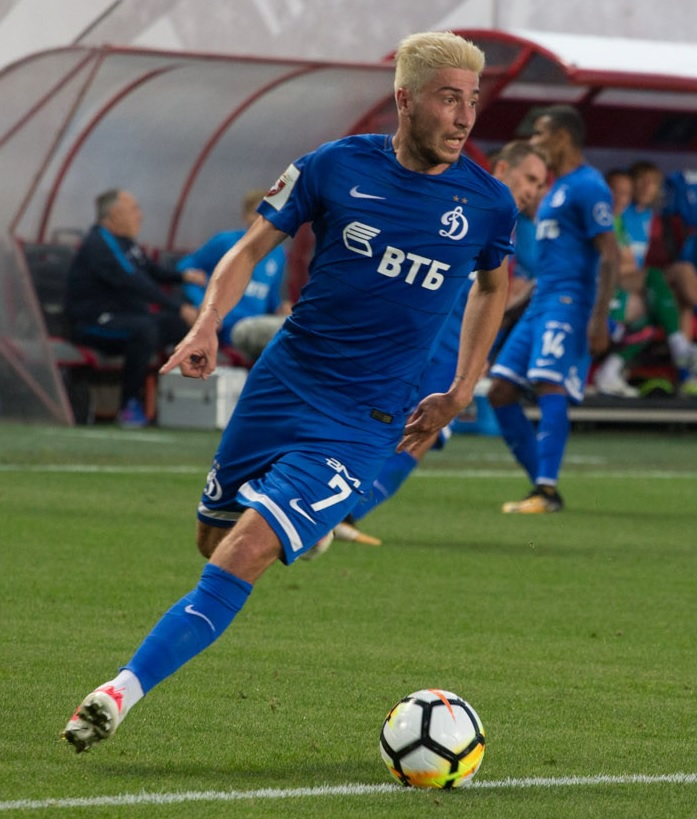 Aleksei Ionov with FC Dynamo Moscow in a game against FC Spartak Moscow.